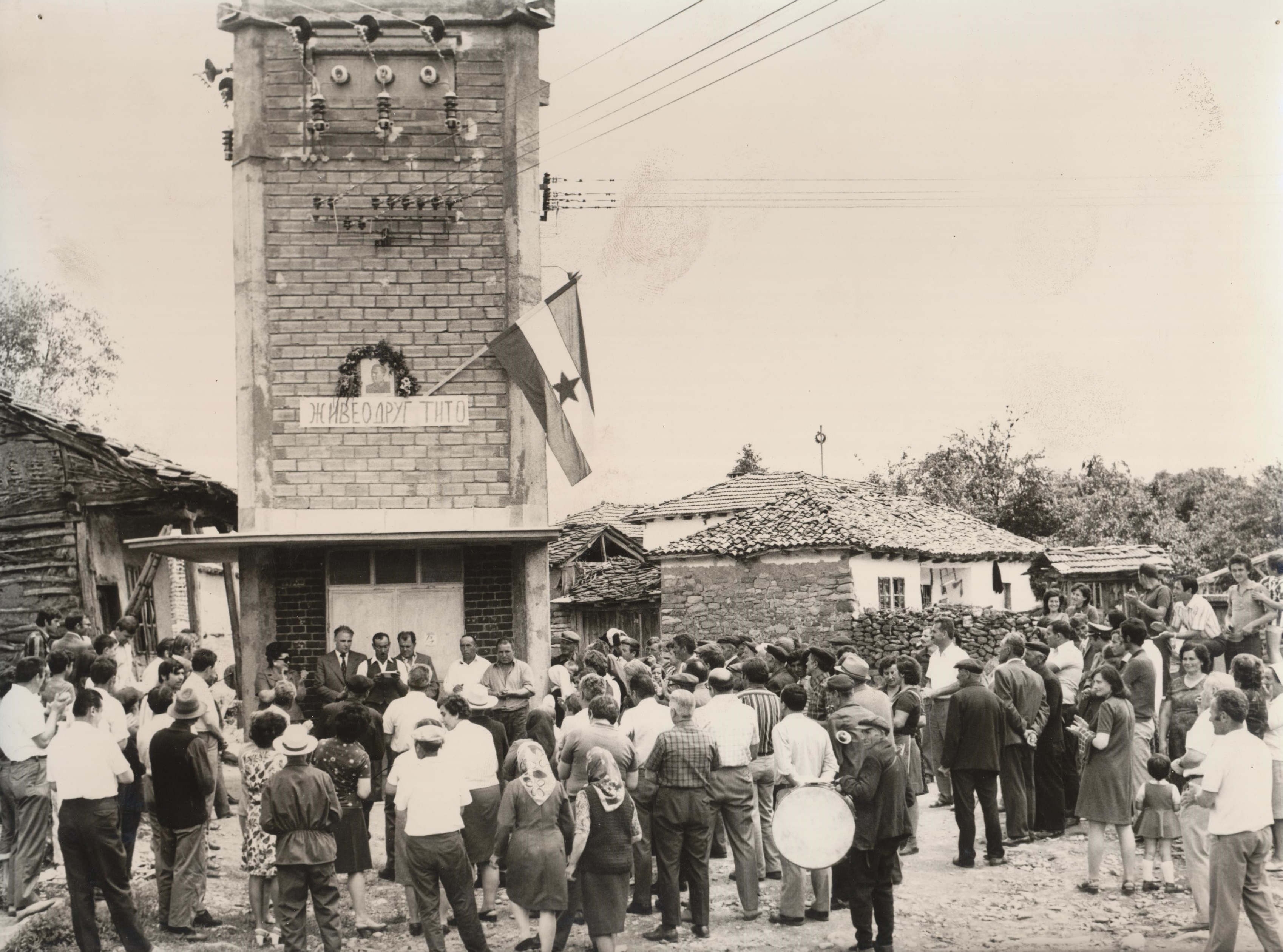 The village of Slavinja celebrates electrification in 1965